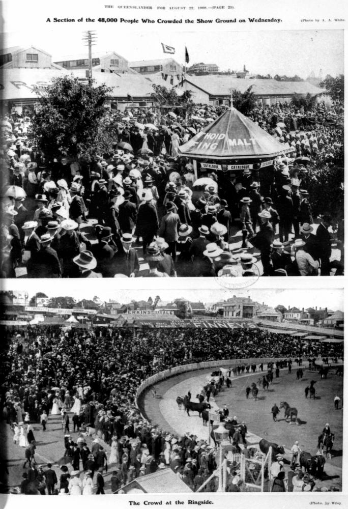 Section of the 48,000 people who crowded the Show Ground and the Crowd at the Ringside, August 1908.